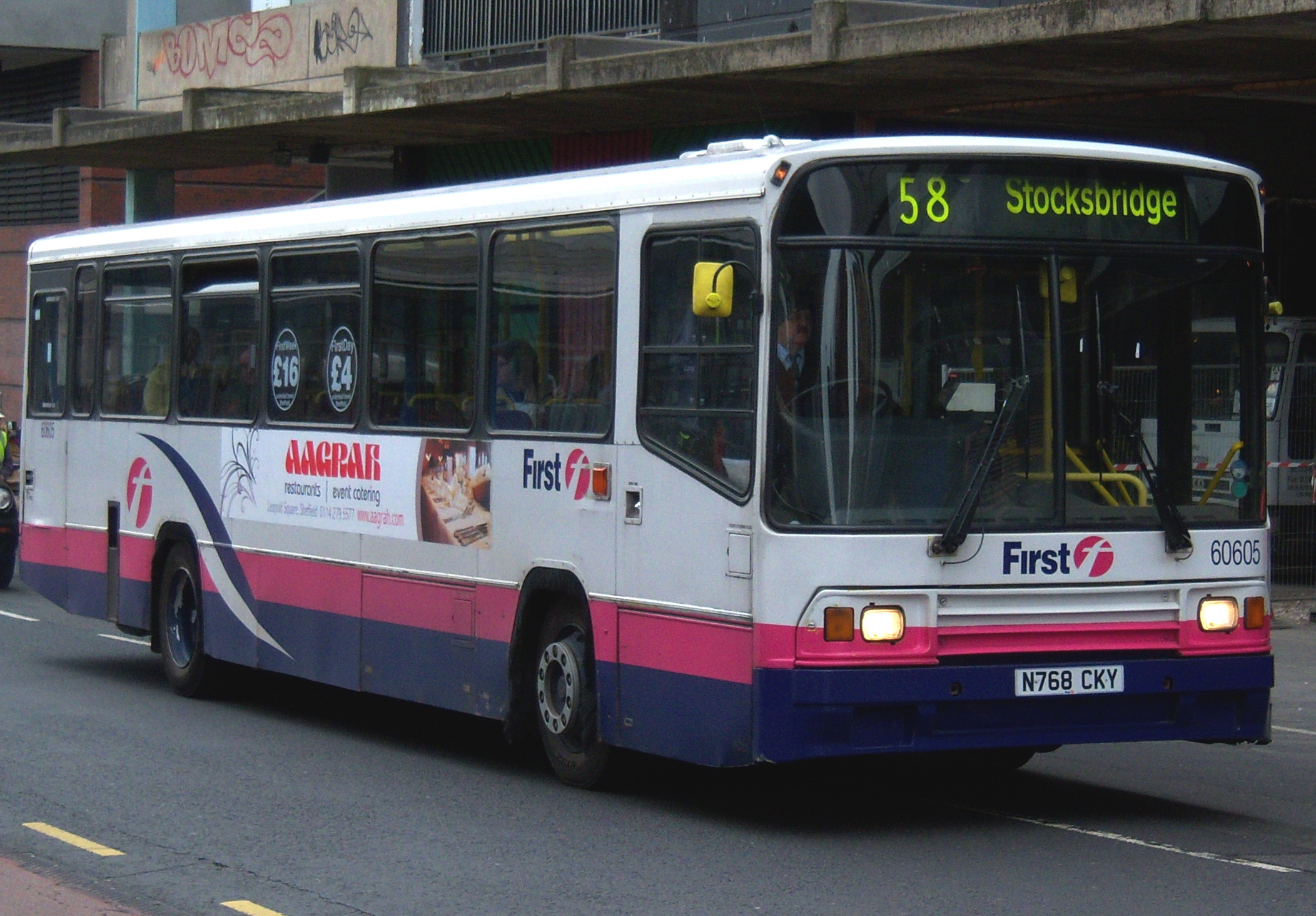 City FirstGroup buses in Sheffield